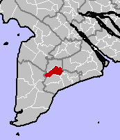 Phuoc Long District, Bac Lieu Province, Vietnam.